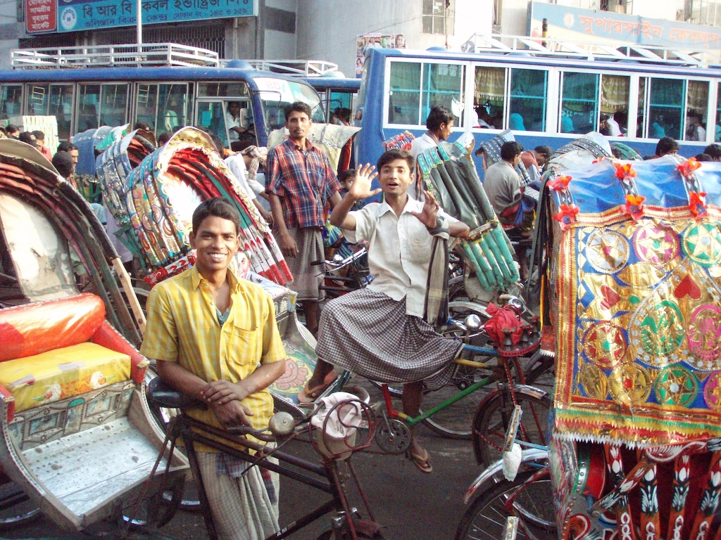 Cycle rickshaws and their drivers, standing, smiling or waving, in Dhaka. Two blue buses can be seen in the background. Original caption: Hundreds of Thousands of ornate rickshaws jam the streets of Dhaka, Bangladesh